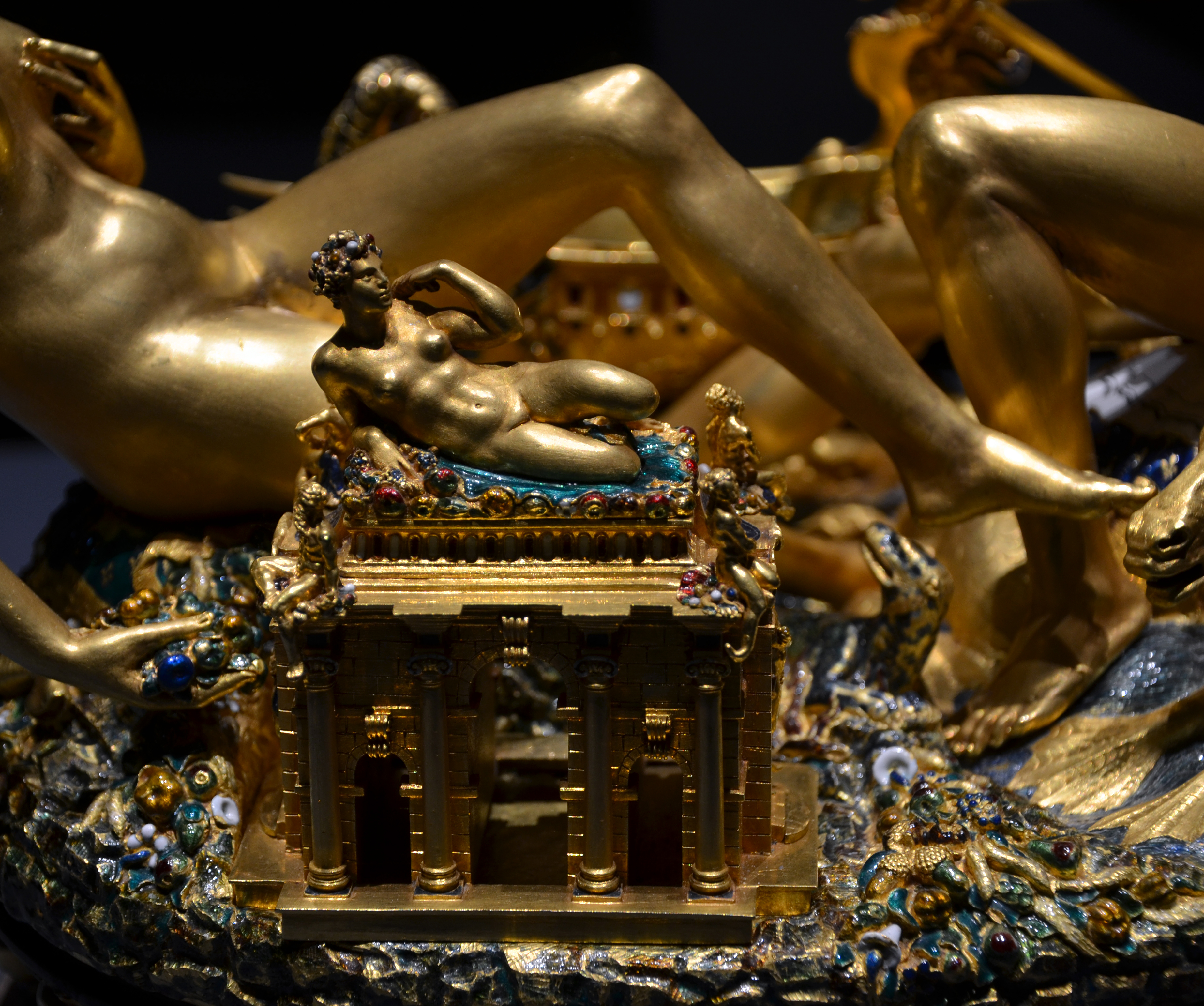 Detail of the "saliera" ( saltcellar in Italian ) made in 1543 for Francis I of France by Benvenuto Cellini ( 1500-1571). Part-enameled gold. Now in the Kunsthistorisches Museum in Vienna.